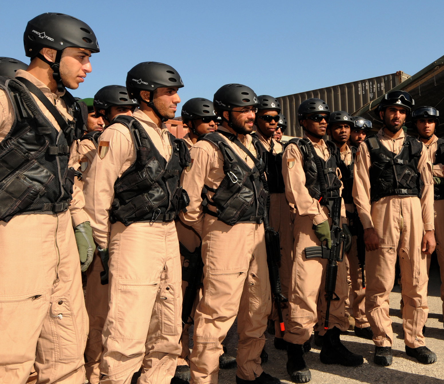 100110-N-0803S-001 MANAMA, Bahrain (Jan. 10, 2010) Rear Adm. Thomas Cropper, deputy commander, U.S. Naval Forces Central Command, congratulates United Arab Emirates soldiers on their completion of a U.S. Coast Guard visit, board, search and seizure course.